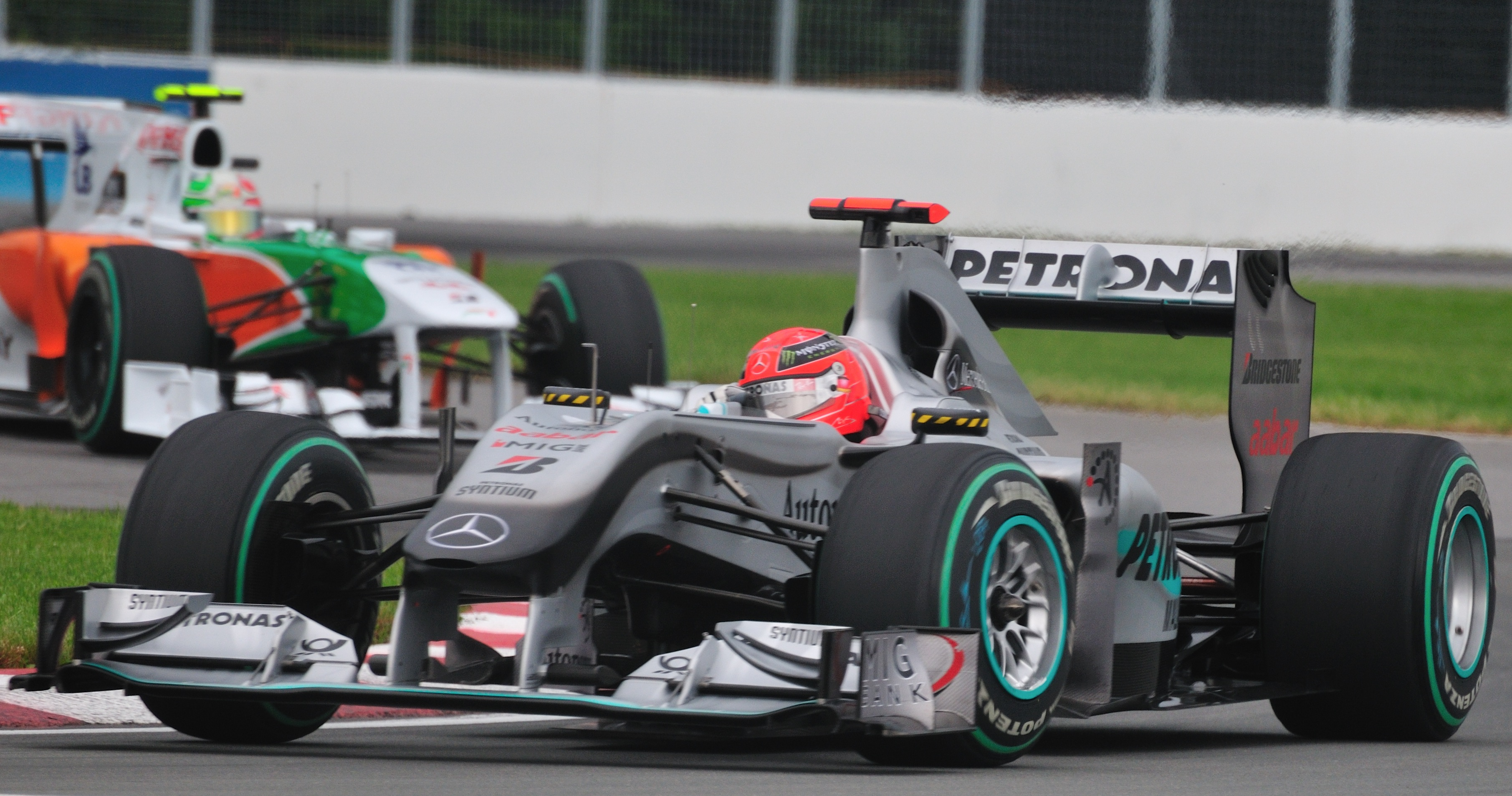 Mercedes GP driver Michael Schumacher of Germany in the Senna corner (2010 Canadian GP)